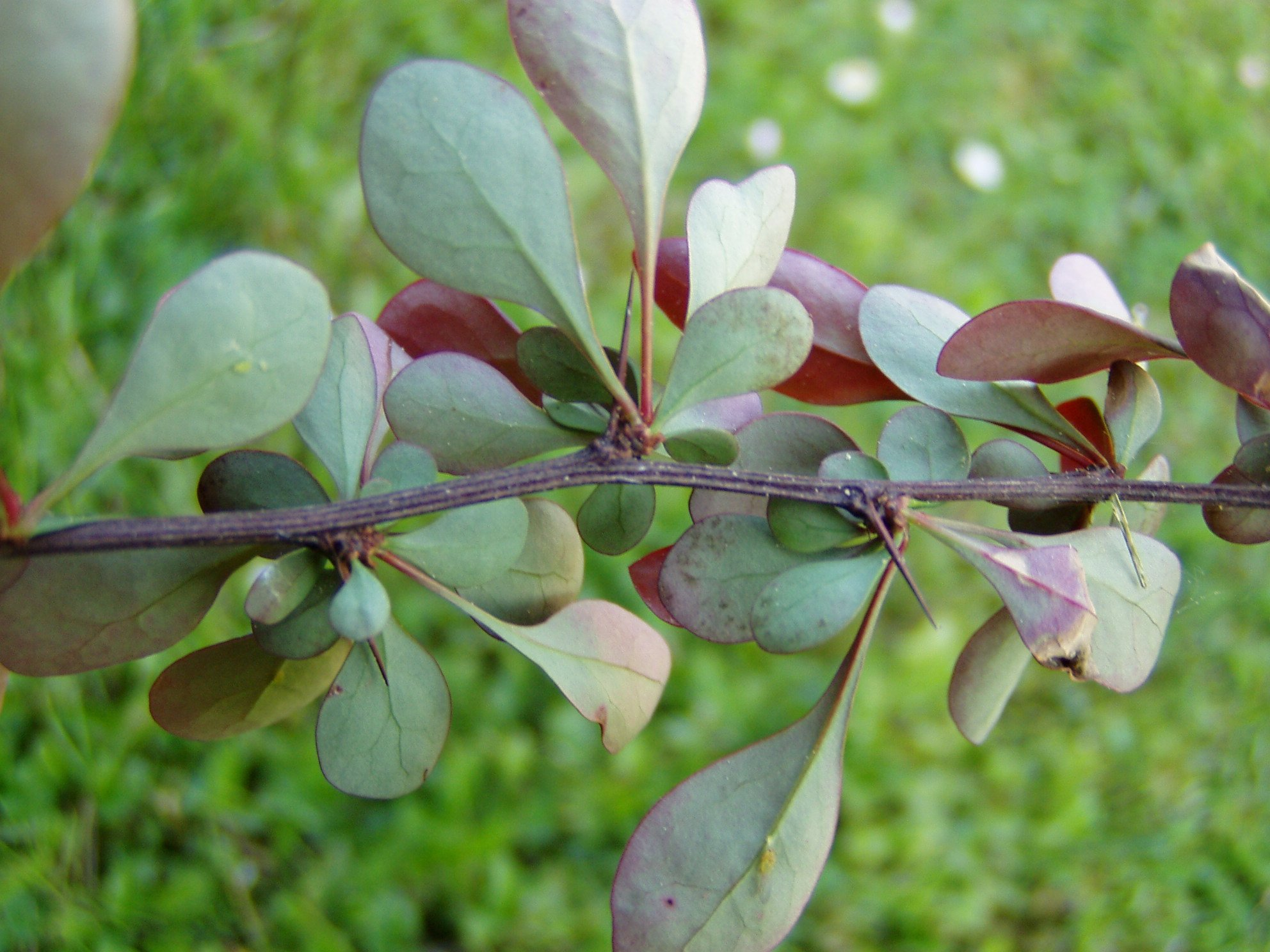 Shoot of Berberis vulgaris